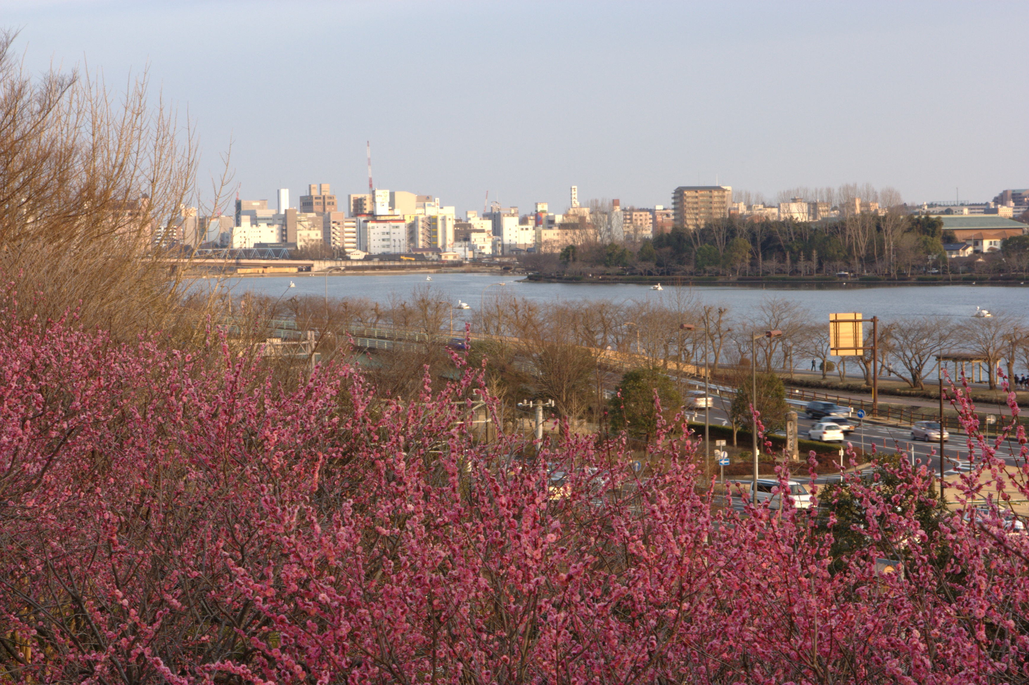 Skyline of Mito, Ibaraki, over the plums of Kairakuen Garden.